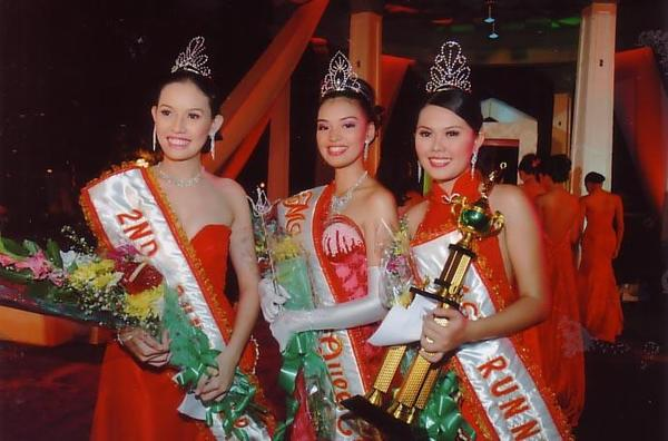 Charisse Gangoso (center), MassKara Queen 2005, and her court. Photo taken during the Coronation ceremonies, October, 2005. Bacolod City, Philippines.